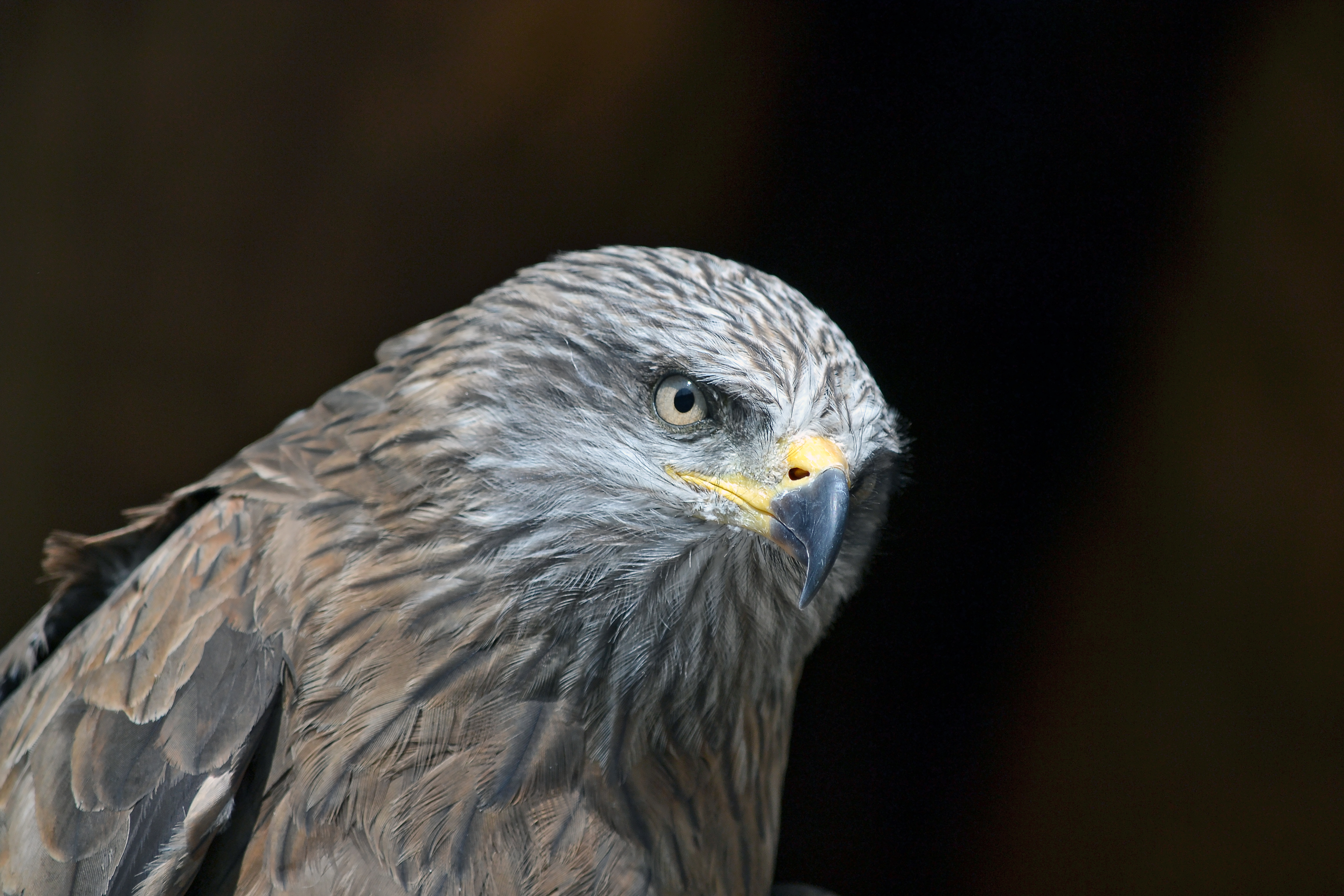 The Black Kite (Milvus migrans) is a medium-sized bird of prey in the family Accipitridae, which also includes many other diurnal raptors.